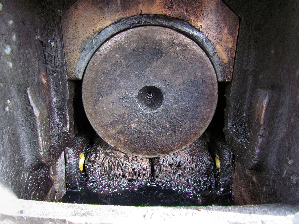 Driving axle friction bearing on preserved New York Central S-Motor #100, built in 1906.